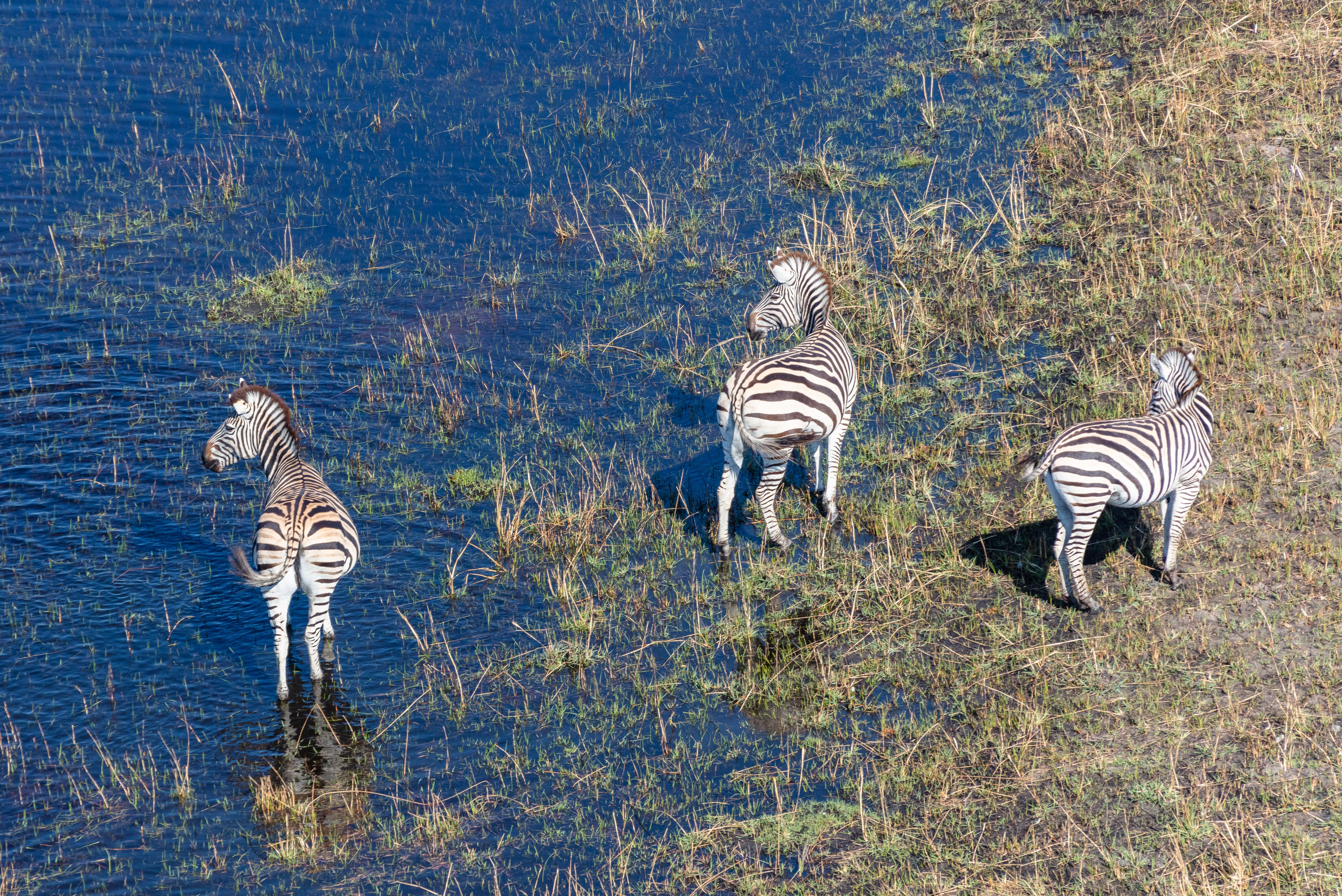 Burchell's zebras (Equus quagga burchellii), Okavango Delta, Botswana